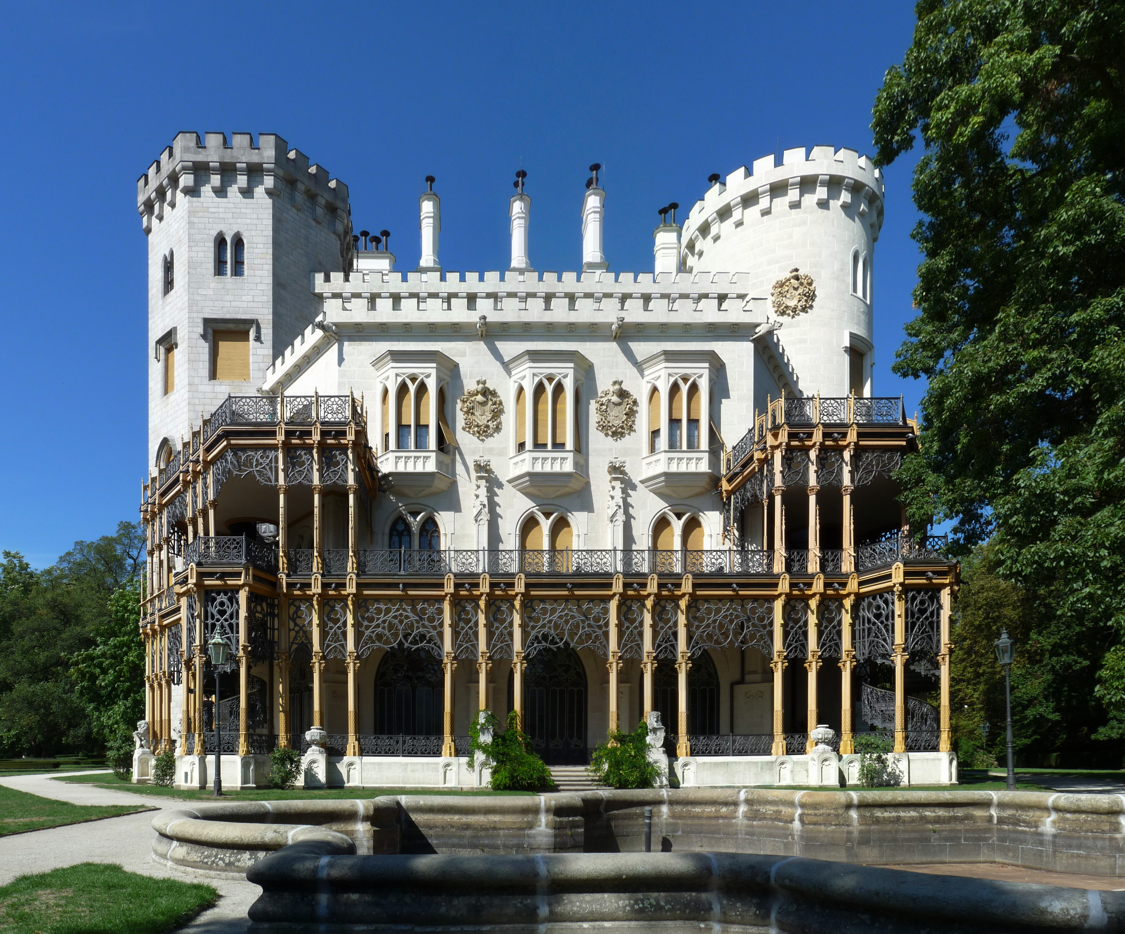 Southern part of the castle in the town of Hluboká nad Vltavou, South Bohemian Region, Czech Republic.